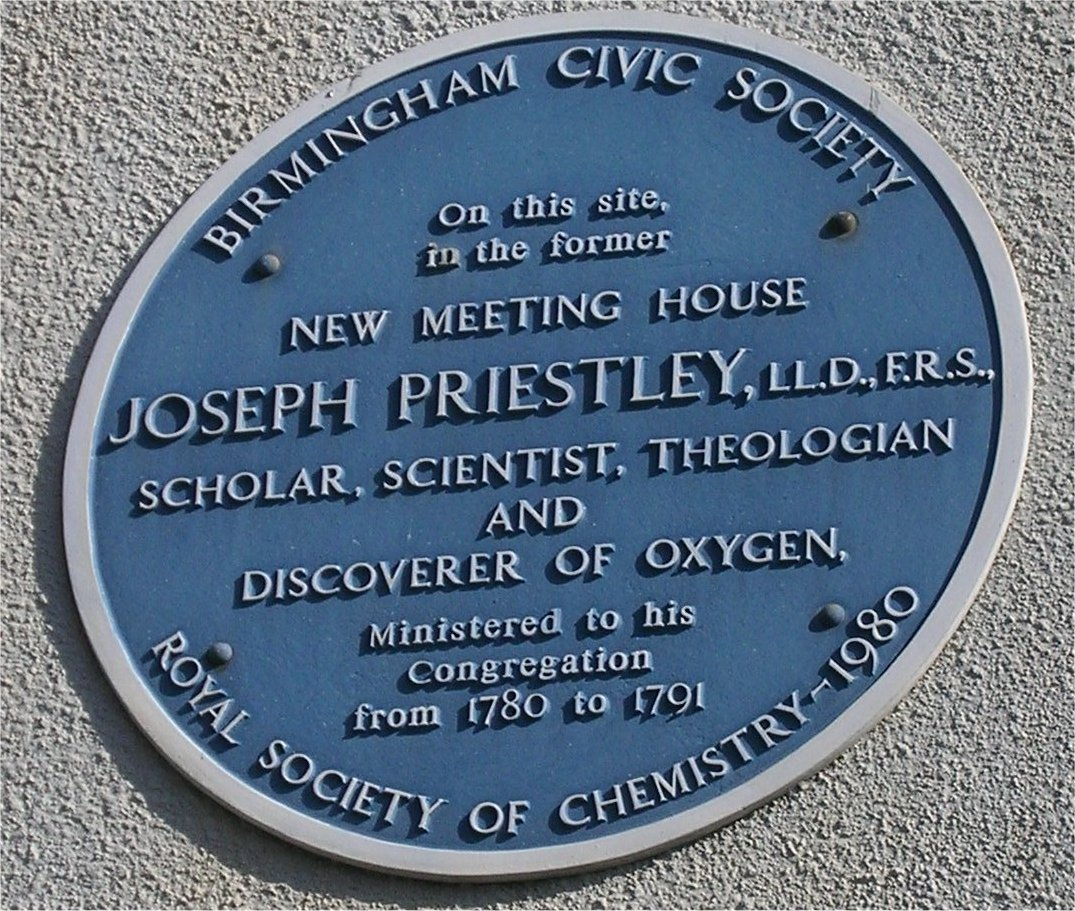 Original description: Blue plaque to Joseph Priestley, philosopher, scientist, and nonconformist preacher on the Church of St Michael and St Joseph, New Meeting House Lane, Birmingham, England. Photographed by me 18 September 2006.